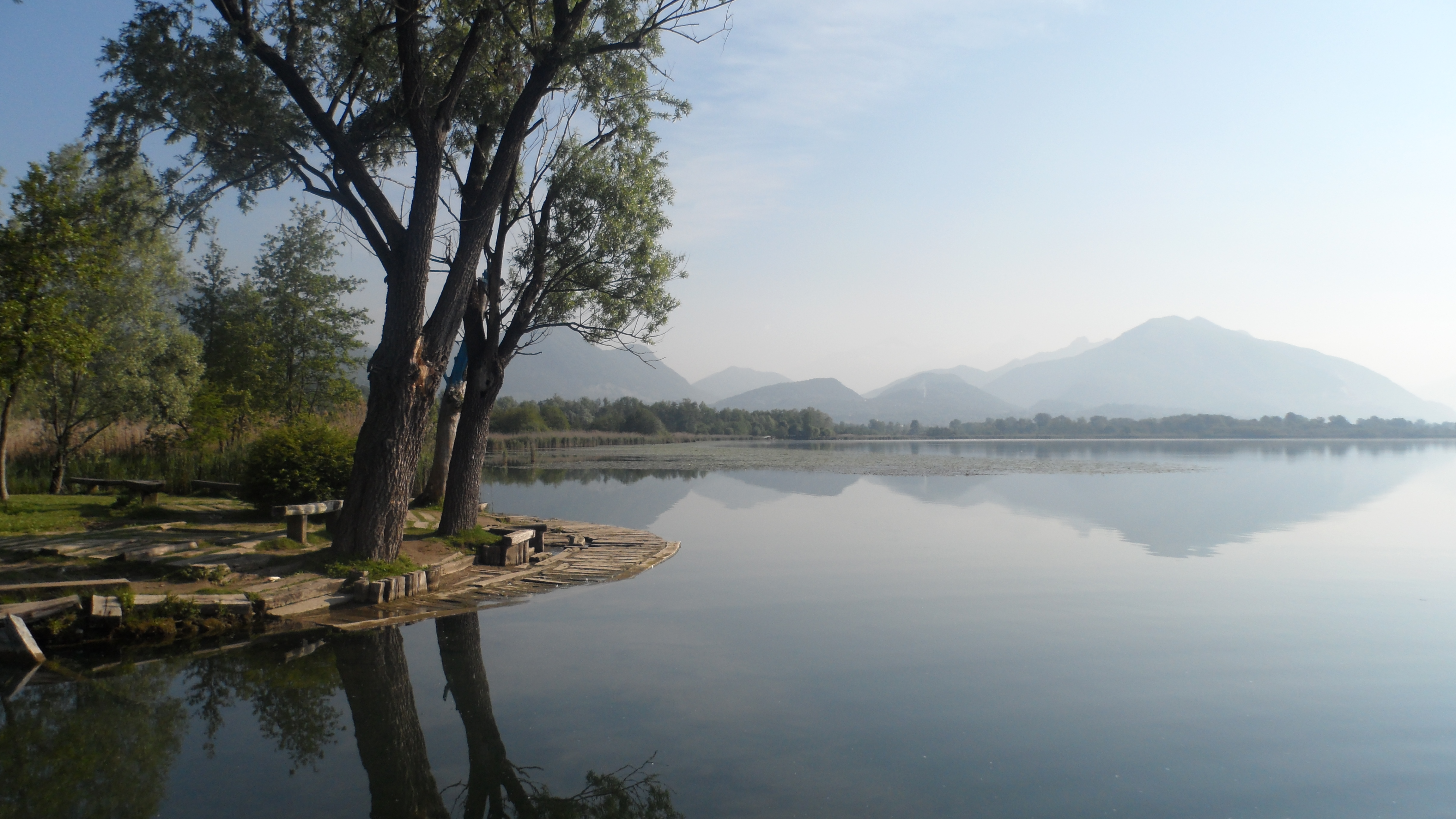 A view of the Alserio lake, in Lombardy, Italy.